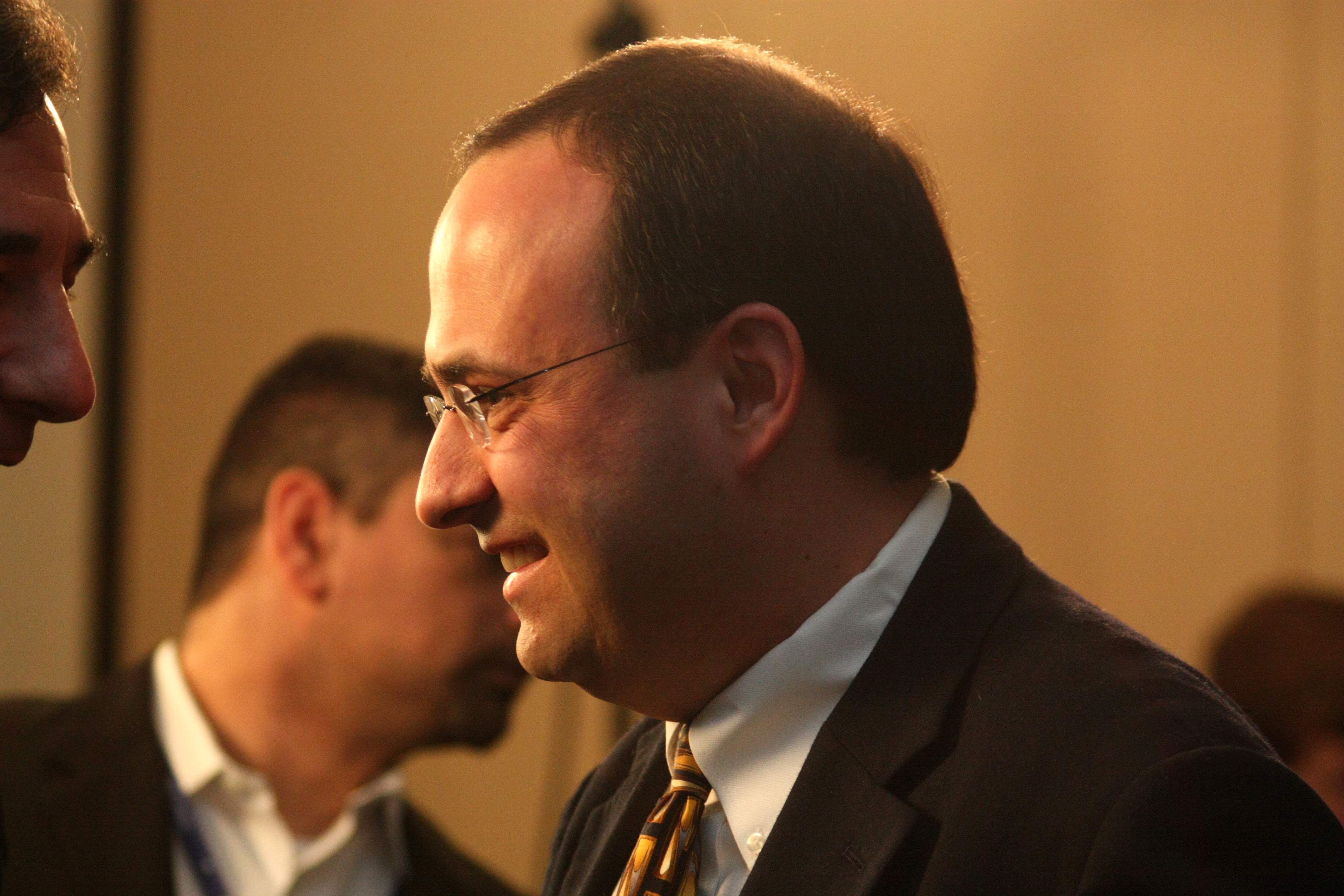 Historian and author Thomas Woods at CPAC in Washington, D.C..